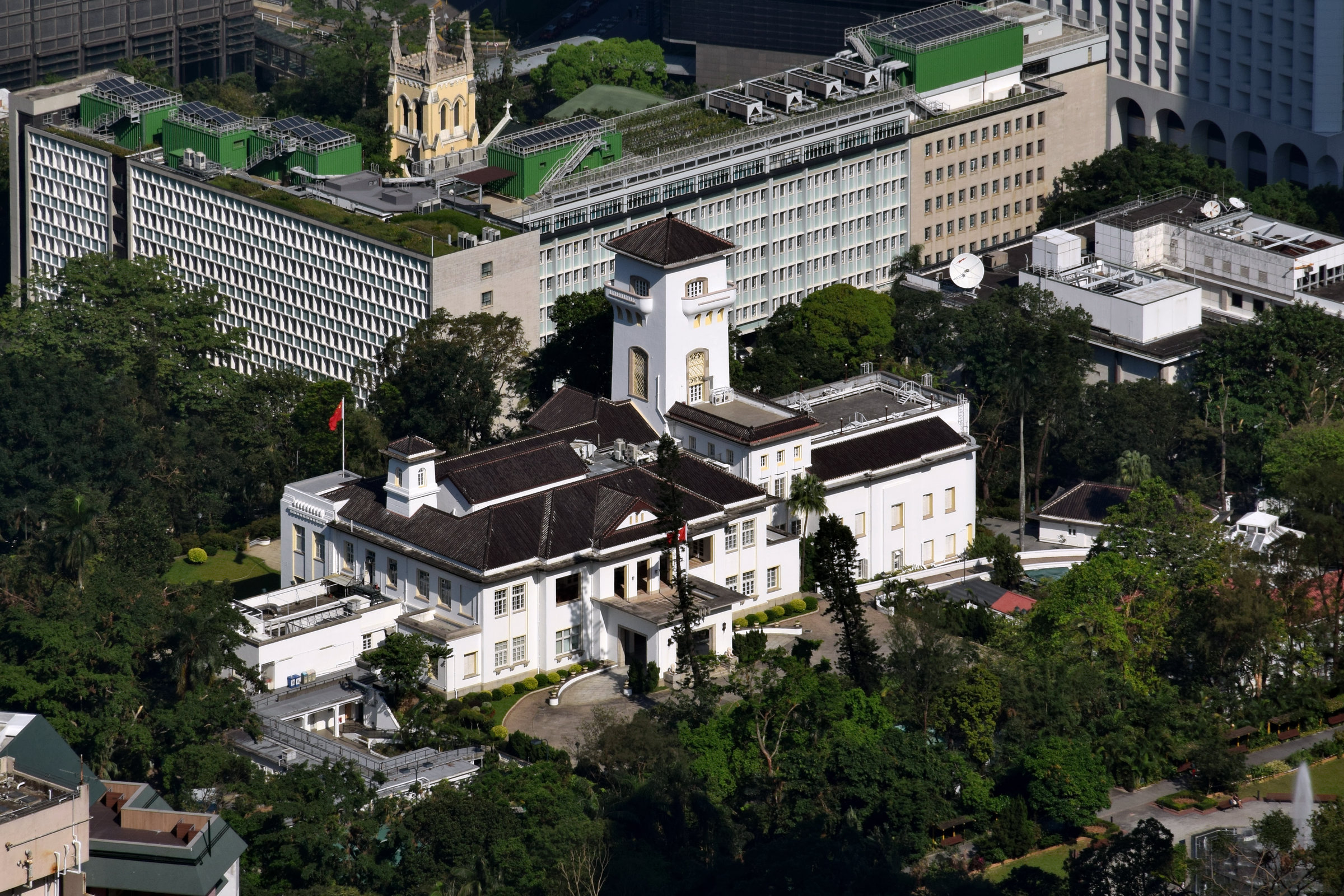 Aerial view of Government House